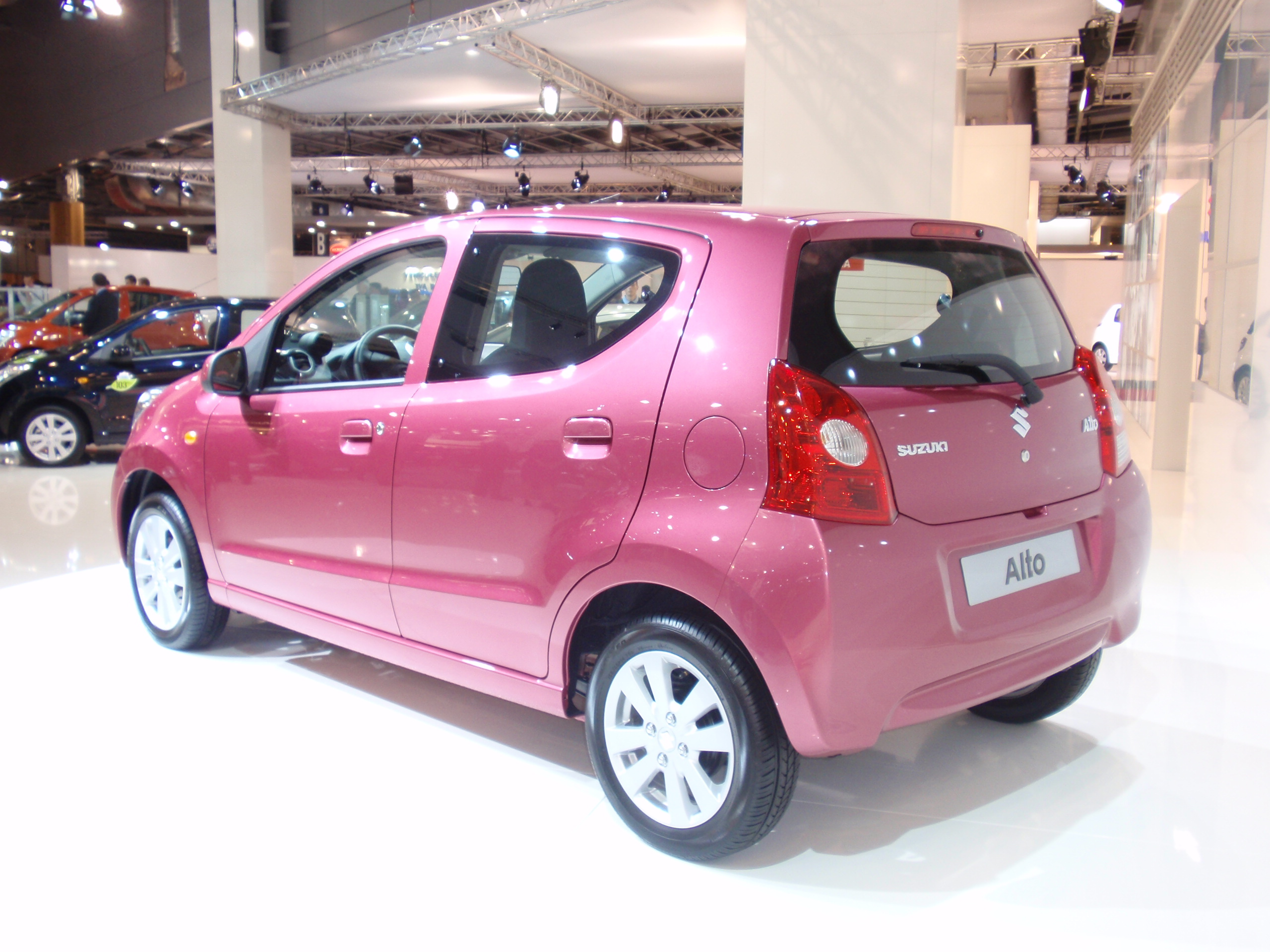 New Suzuki Alto at the 2008 Paris Motor Show